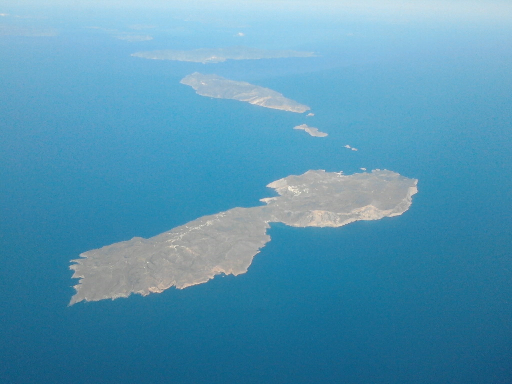 The island of Folegandros as seen from west. Behind can be seen Sikinos and Ios.